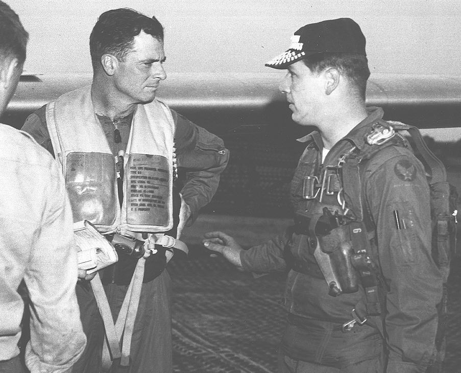 Col. Doss, left, in discussion after mission. Kunsan, Korea